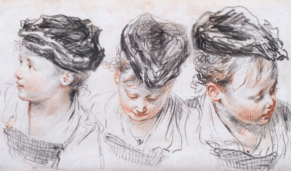 Three Studies of a Young Girl Wearing a Hat